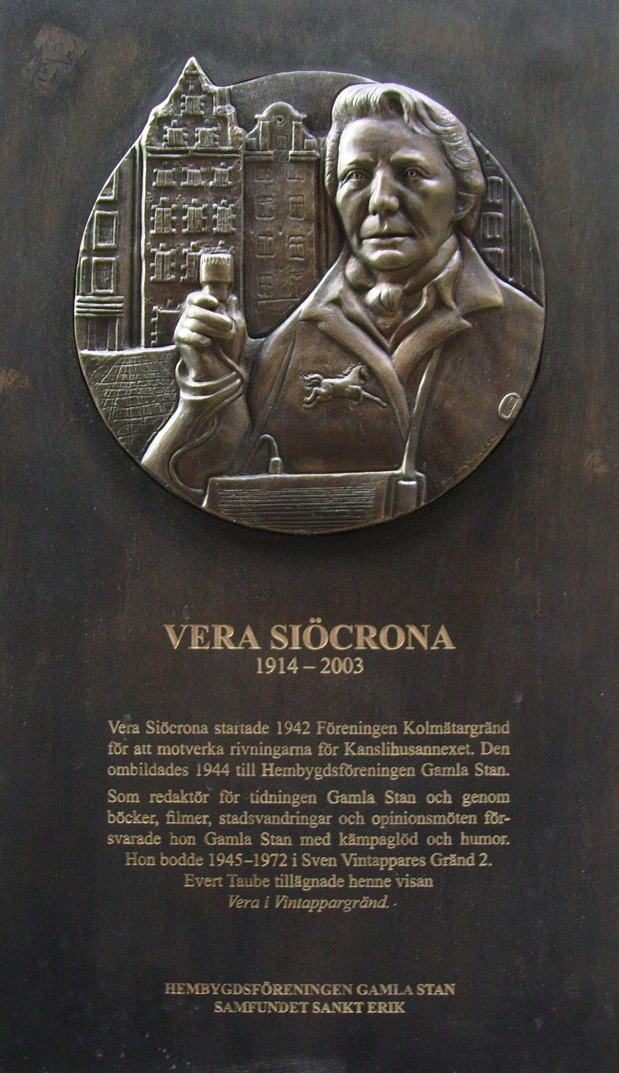 Picture of Vera Siöcrona, Stockholm